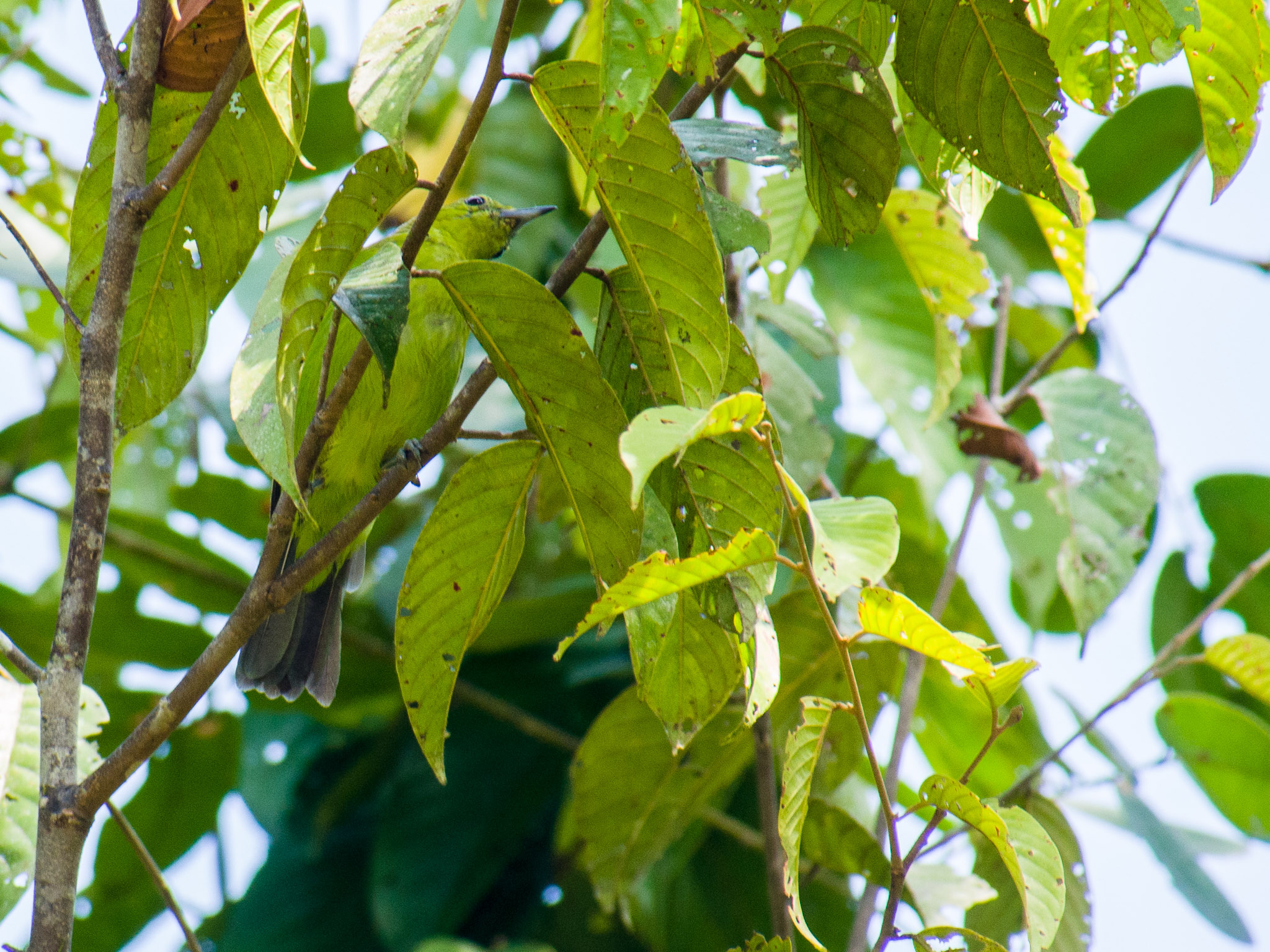 Showing why it's called a "leaf" bird!